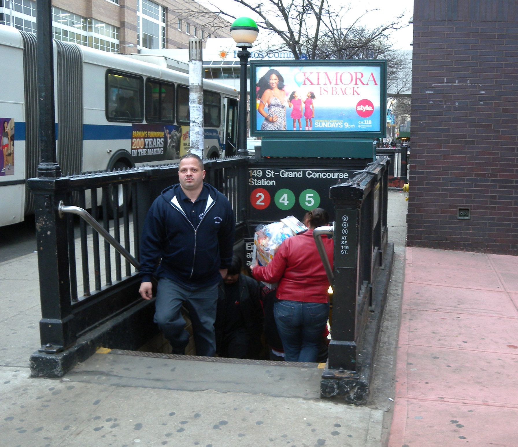 Looking south at en:149th Street – Grand Concourse (New York City Subway) station with a New Flyer Arctic Bus operating on the Bx1 on a cloudy afternoon. ZIP 10451.